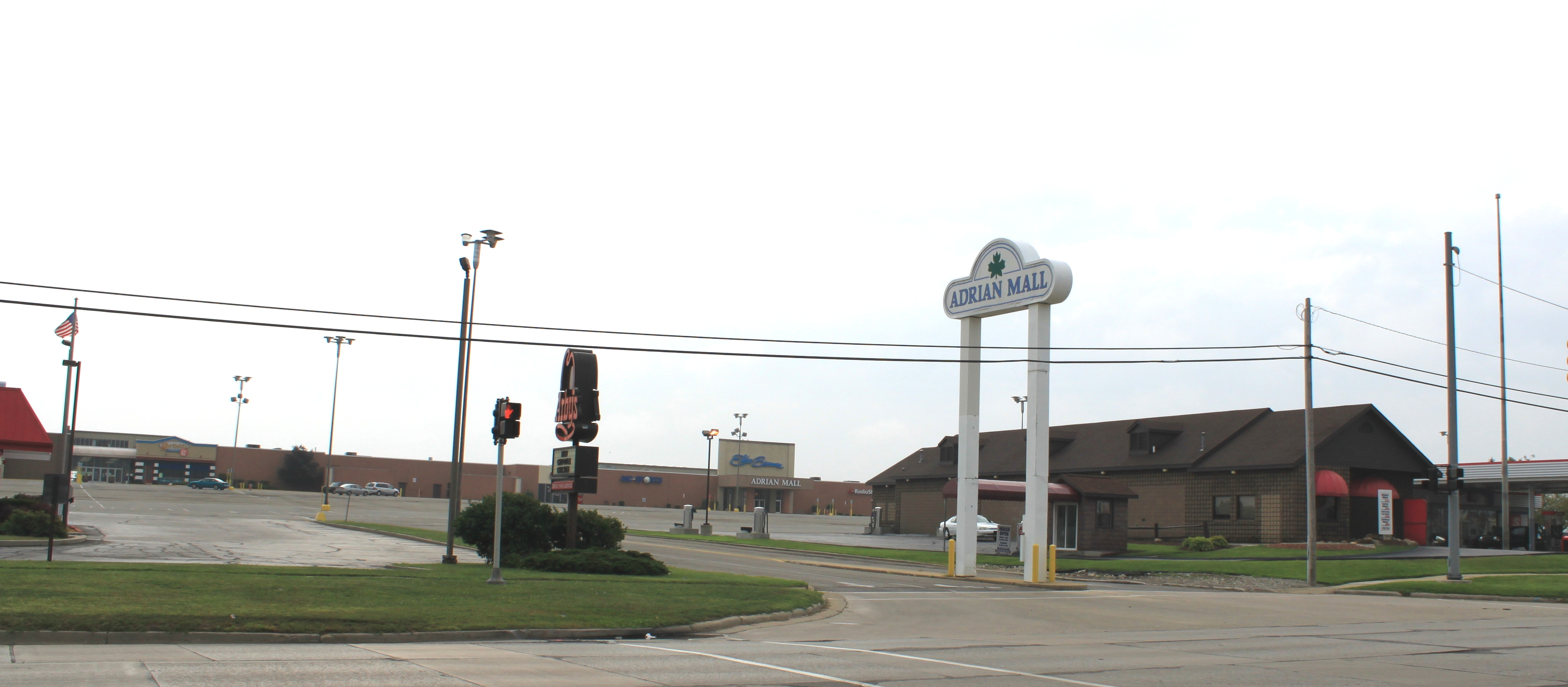 Adrian Mall, 1357 Main Street, Adrian, Michigan.